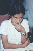 Chess player Vanessa West.